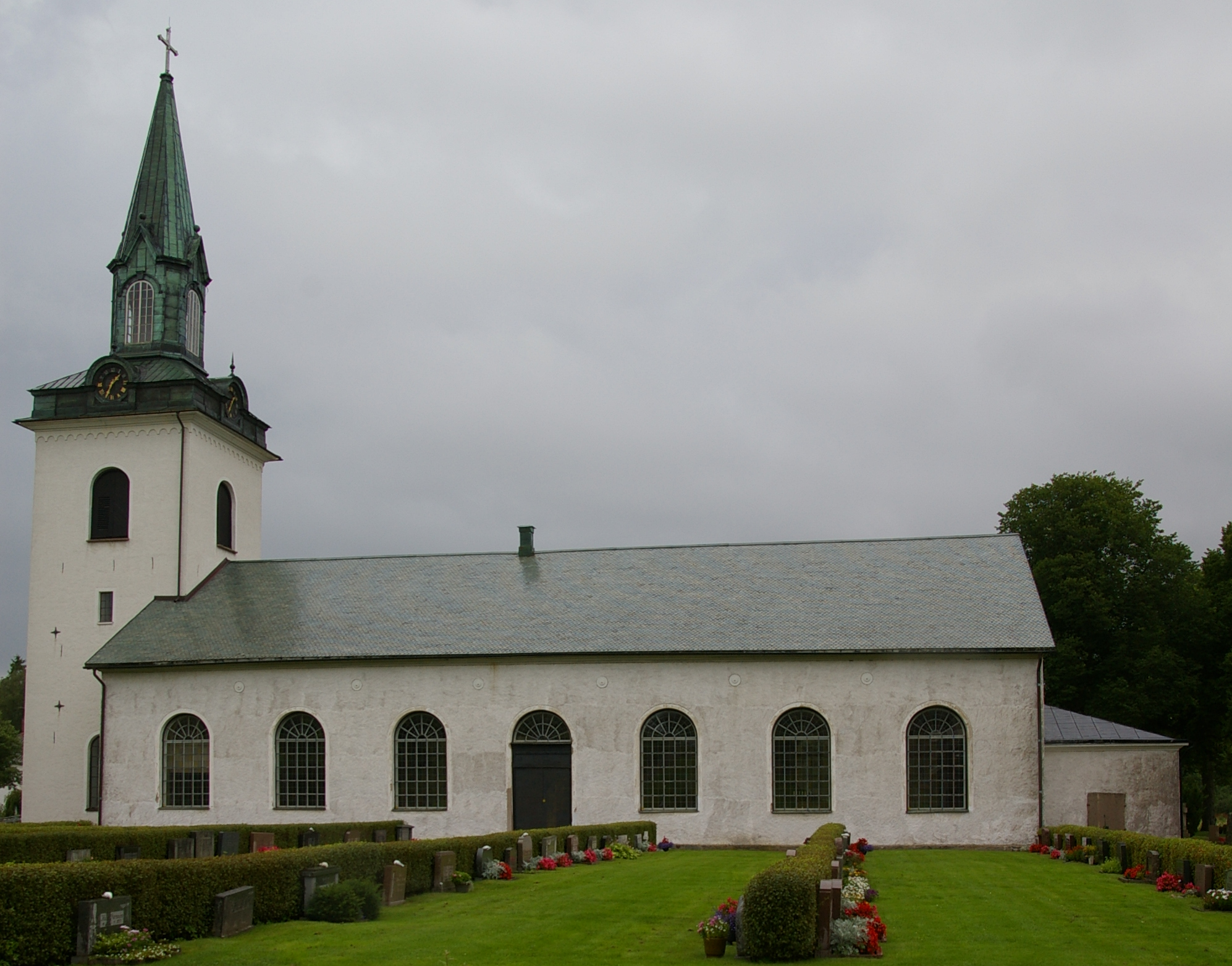 Floby kyrka (Swedish:Church of Floby) in Västergötland, Sweden.